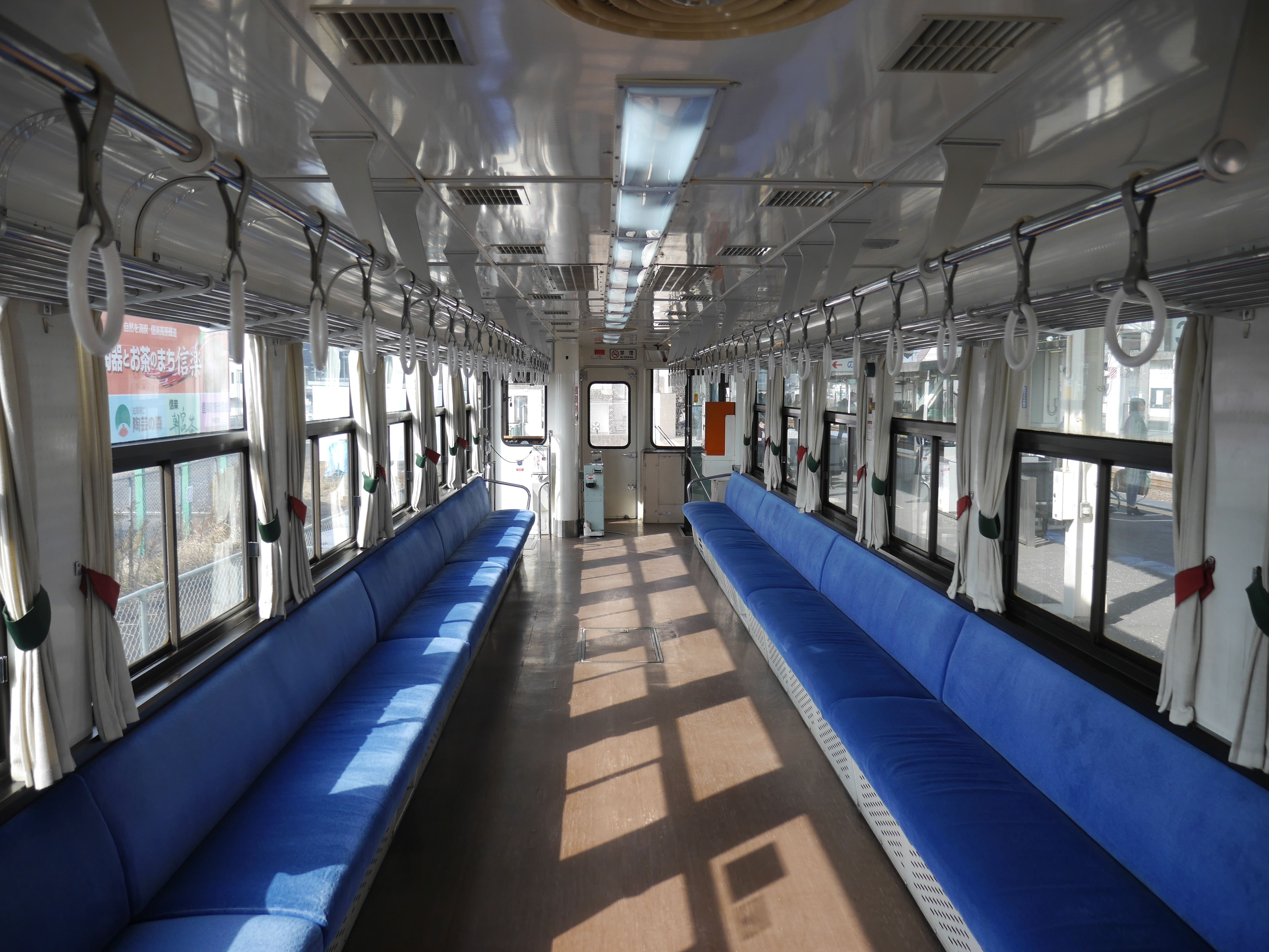 Inside Shigaraki Kogen Railway SKR 205 DMU